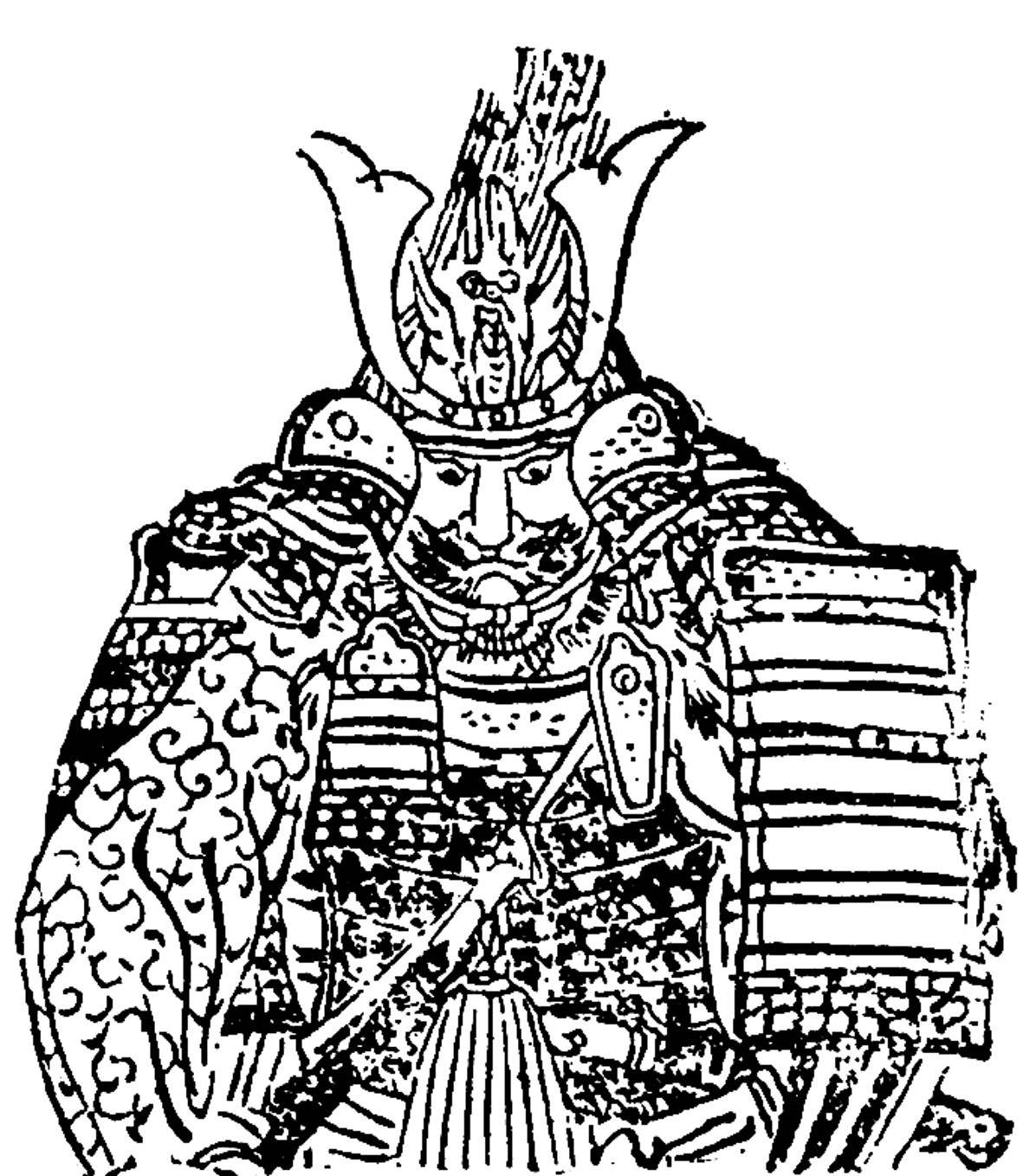 Portrait of Sjibata Katsuie